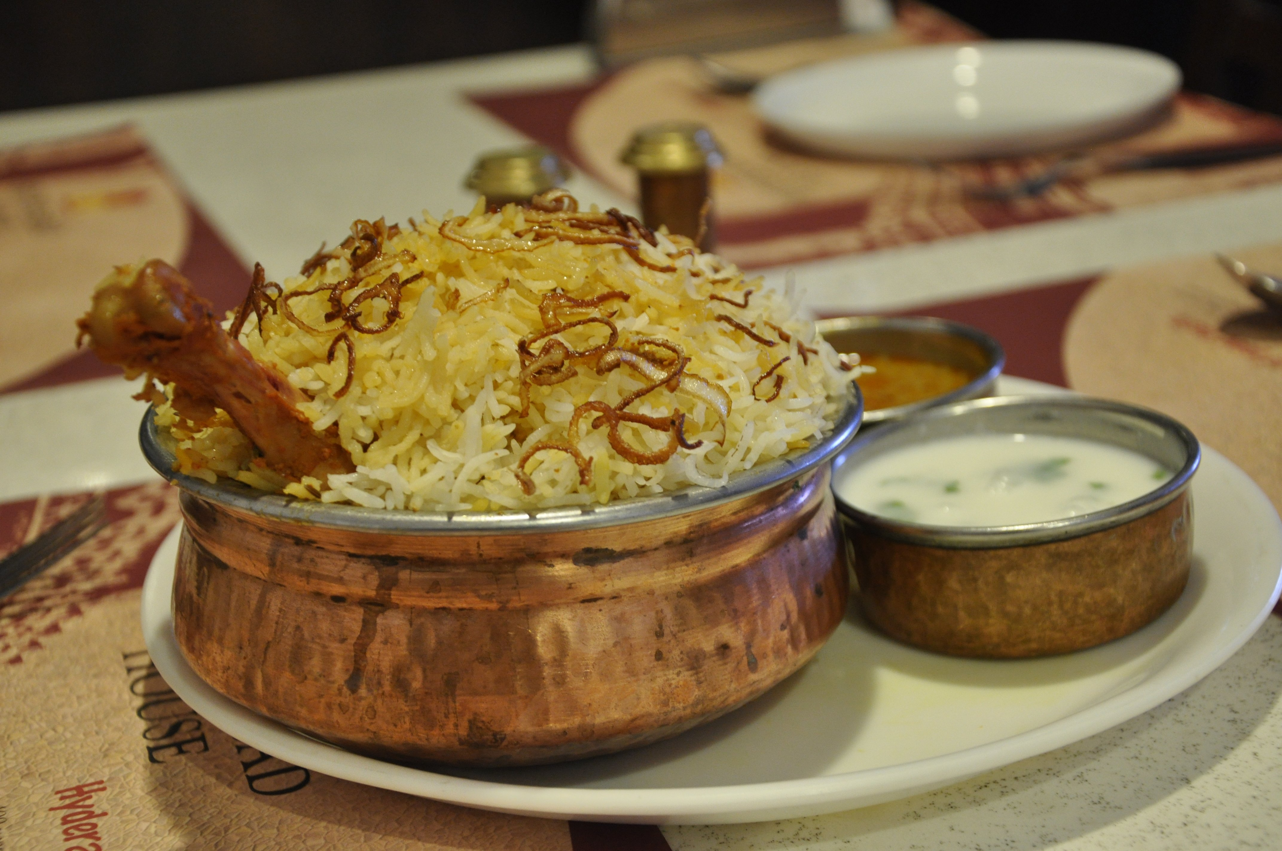 {Wiki Loves Food 2015 }